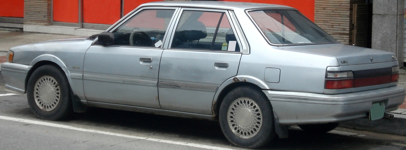 Kia New Capital